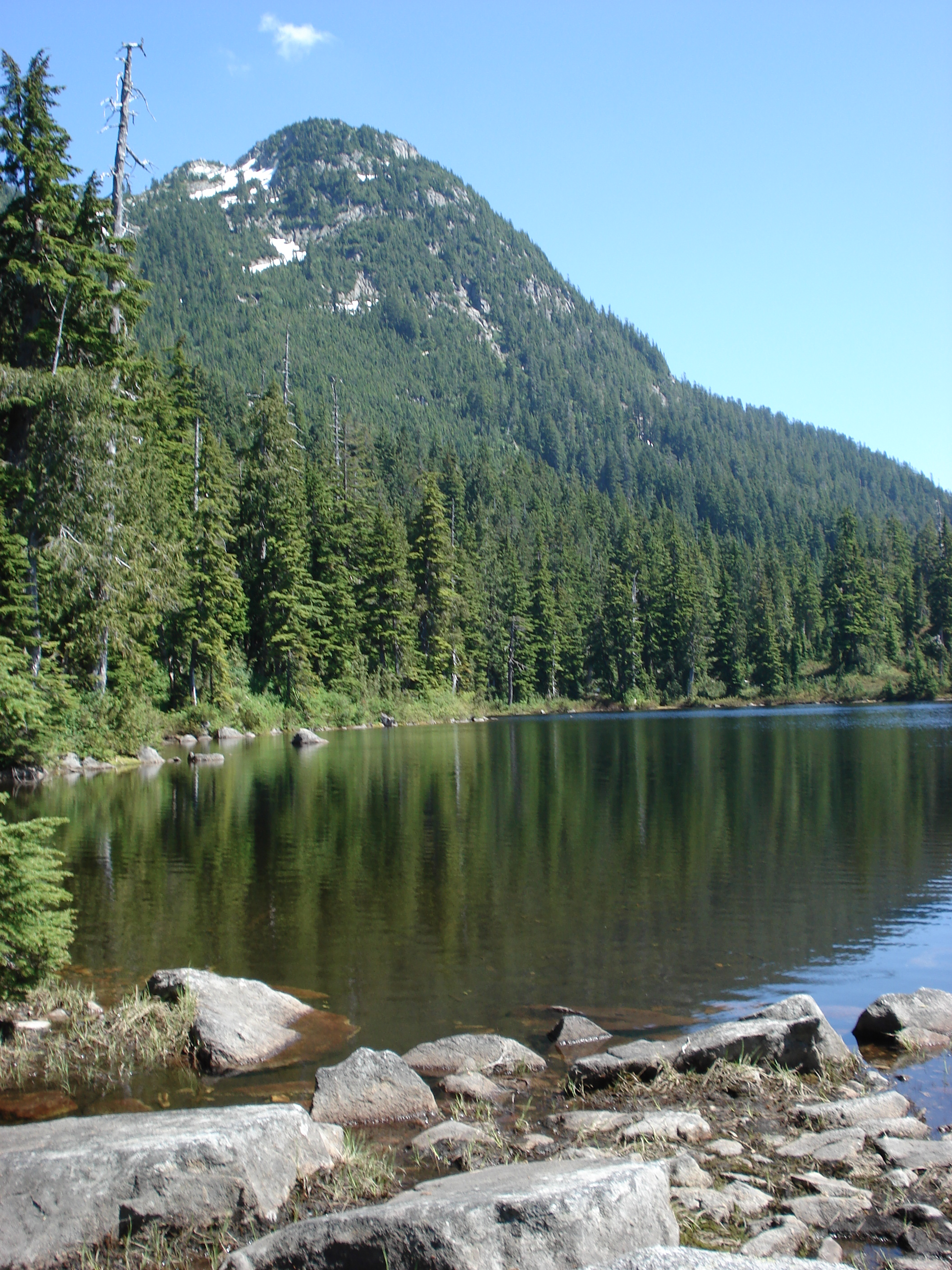 Mount Bishop with Vicar Lake in foreground